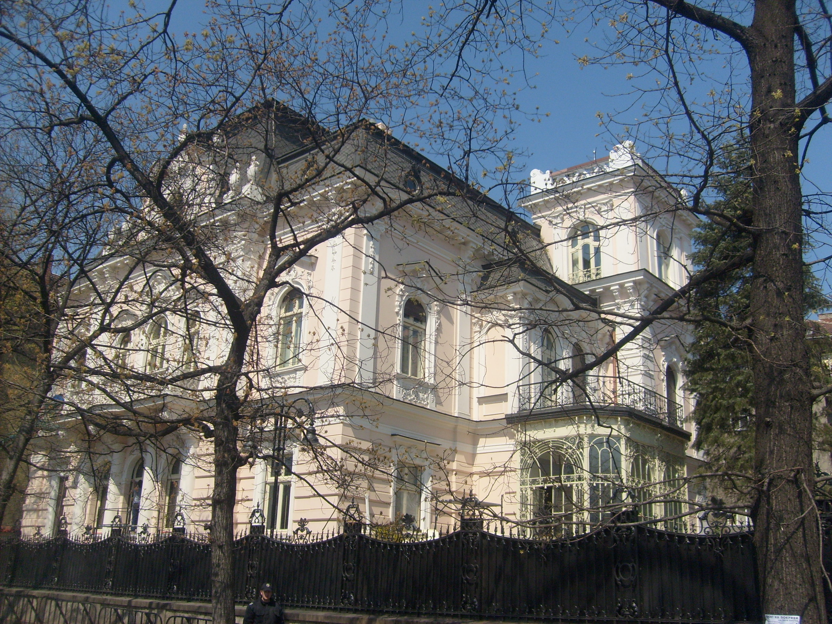 Embassy of Turkey (the old Samardzhiev House) on Tsar Osvoboditel Boulevard, Sofia, Bulgaria